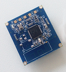 BLE 4.0 Module used for Apples iBeacon Standard